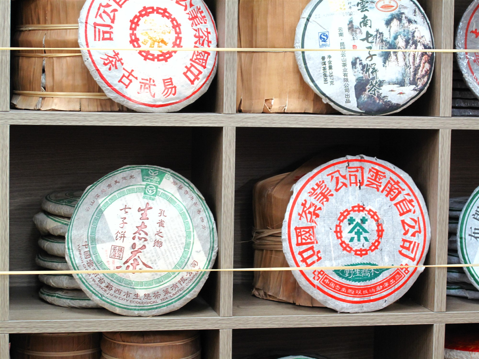 Chinese tea for sale in Seomon market, Daegu, South Korea